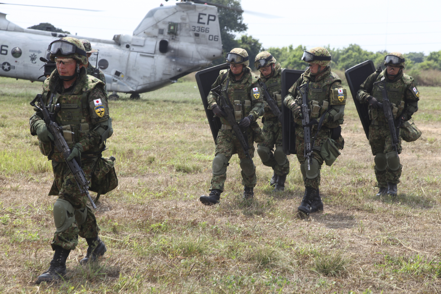 Japan soldiers set up security for the take off of a CH-46E Sea Knight helicopter during the simulated non-combatant evacuation operations Rayong, Kingdom of Thailand, Feb. 12, 2012. The Royal Thai Marine Corps, U.S. Marines, Japan Self Defense Forces, Malaysian and Singaporean armed forces all participated in the NEO training during Exercise Cobra Gold 2012. The aircraft belongs to Marine Medium Helicopter Squadron 265, 31st Marine Expeditionary Unit. The exercise improves the capability to plan and conduct combined joint operations, building relationships between partnering nations and improving interoperability across the Asia-Pacific Region.